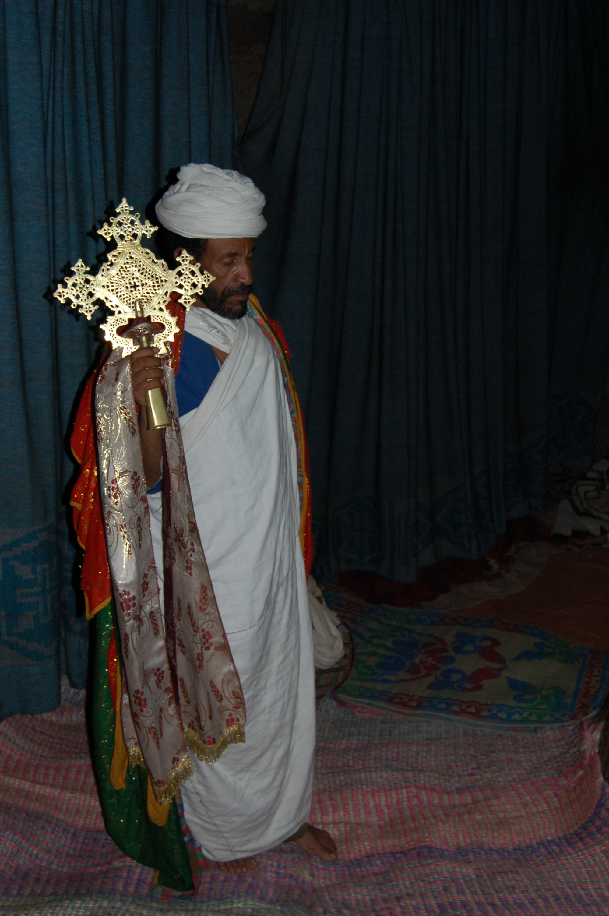 Presbítero con cruz etíope